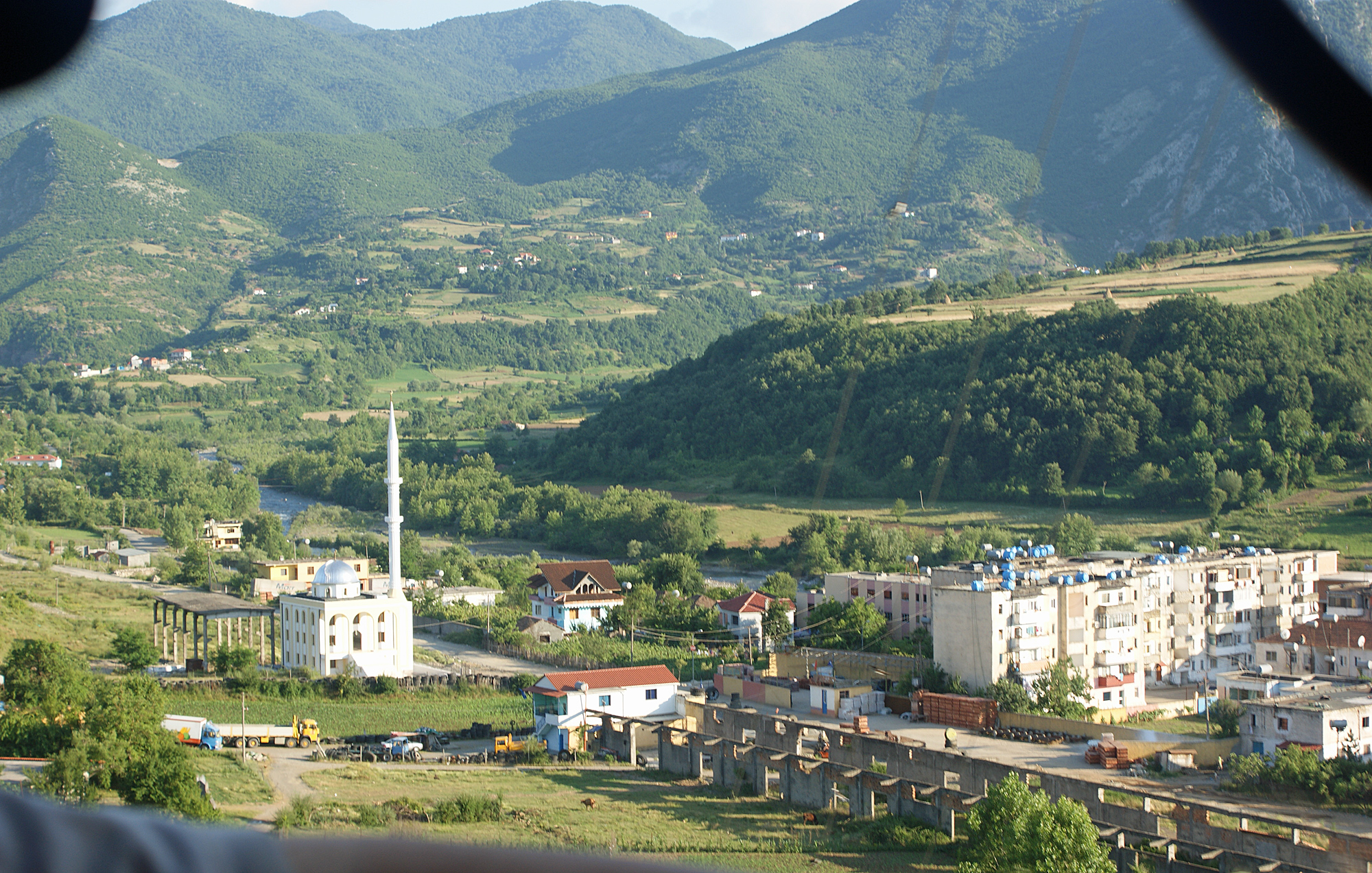 Southern entrance to the village of Klos, District Mat, Albania